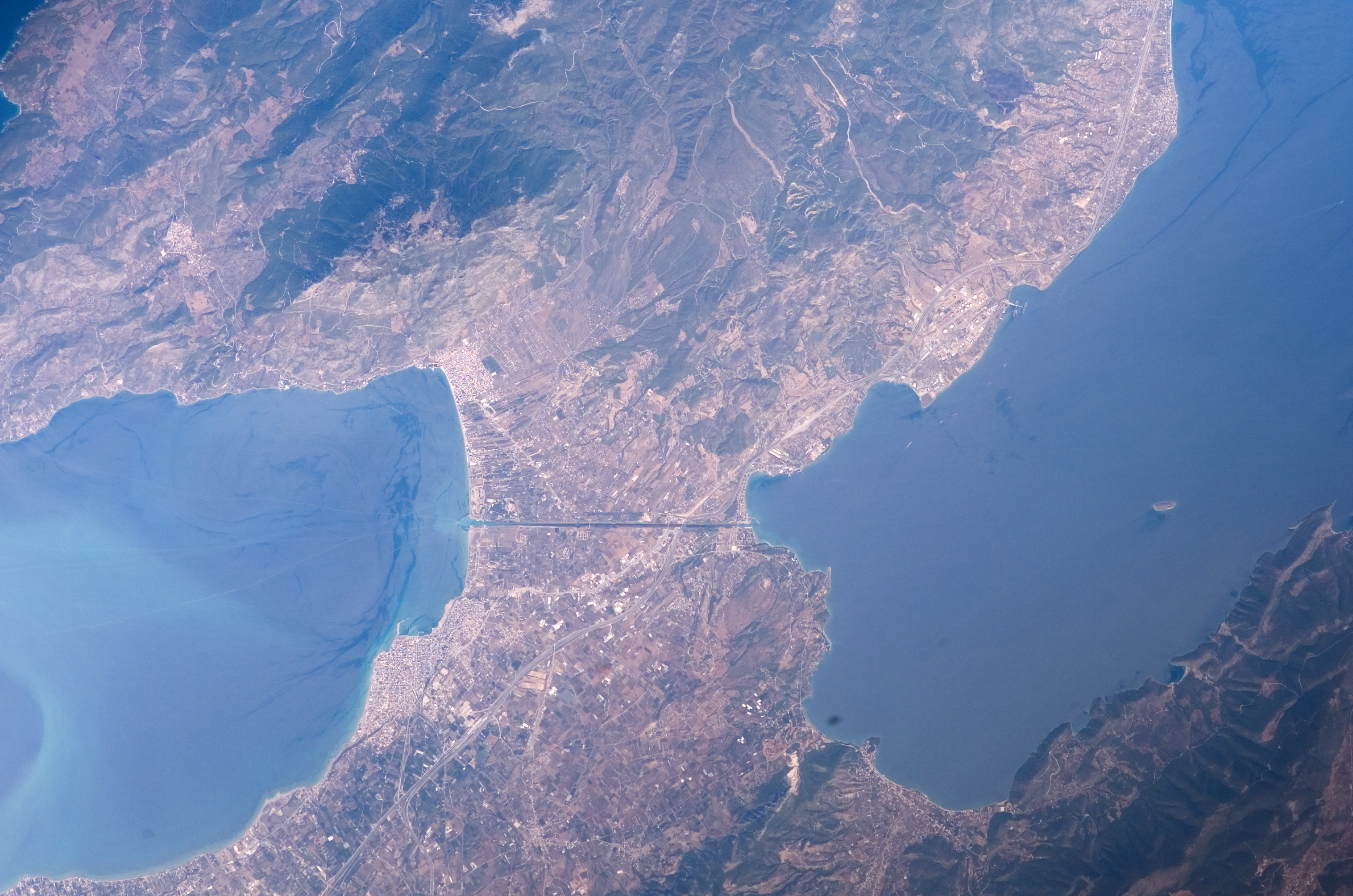 KORINTHOS, KHILIOMODHION Camera Camera Tilt: 24 Camera Focal Length: 400mm Camera: E4: Kodak DCS760C Electronic Still Camera Film: 3060E : 3060 x 2036 pixel CCD, RGBG array. Nadir Date: 20050917 (YYYYMMDD)GMT Time: 111637 (HHMMSS) Nadir Point Latitude: 39.3, Longitude: 22.9 (Negative numbers indicate south for latitude and west for longitude) Nadir to Photo Center Direction: South Sun Azimuth: 202 (Clockwise angle in degrees from north to the sun measured at the nadir point) Spacecraft Altitude: 186 nautical miles (344 km) Sun Elevation Angle: 51 (Angle in degrees between the horizon and the sun, measured at the nadir point) Orbit Number: 3020